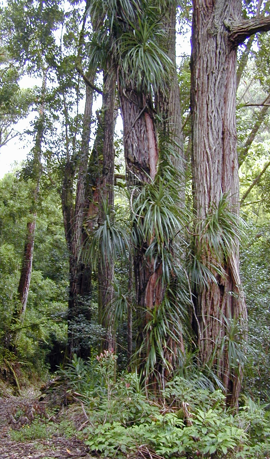 Freycinetia arborea ('Ie'ie), climbing on Eucalyptus at Wahinepee, Maui, Hawaii.